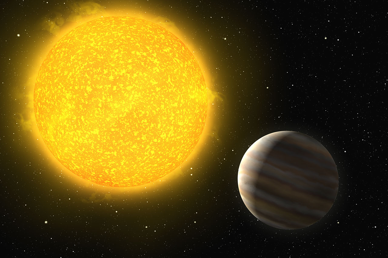 Artistic impression of exoplanet OGLE2-TR-L9b in orbit of the hottest star known to have a planet.